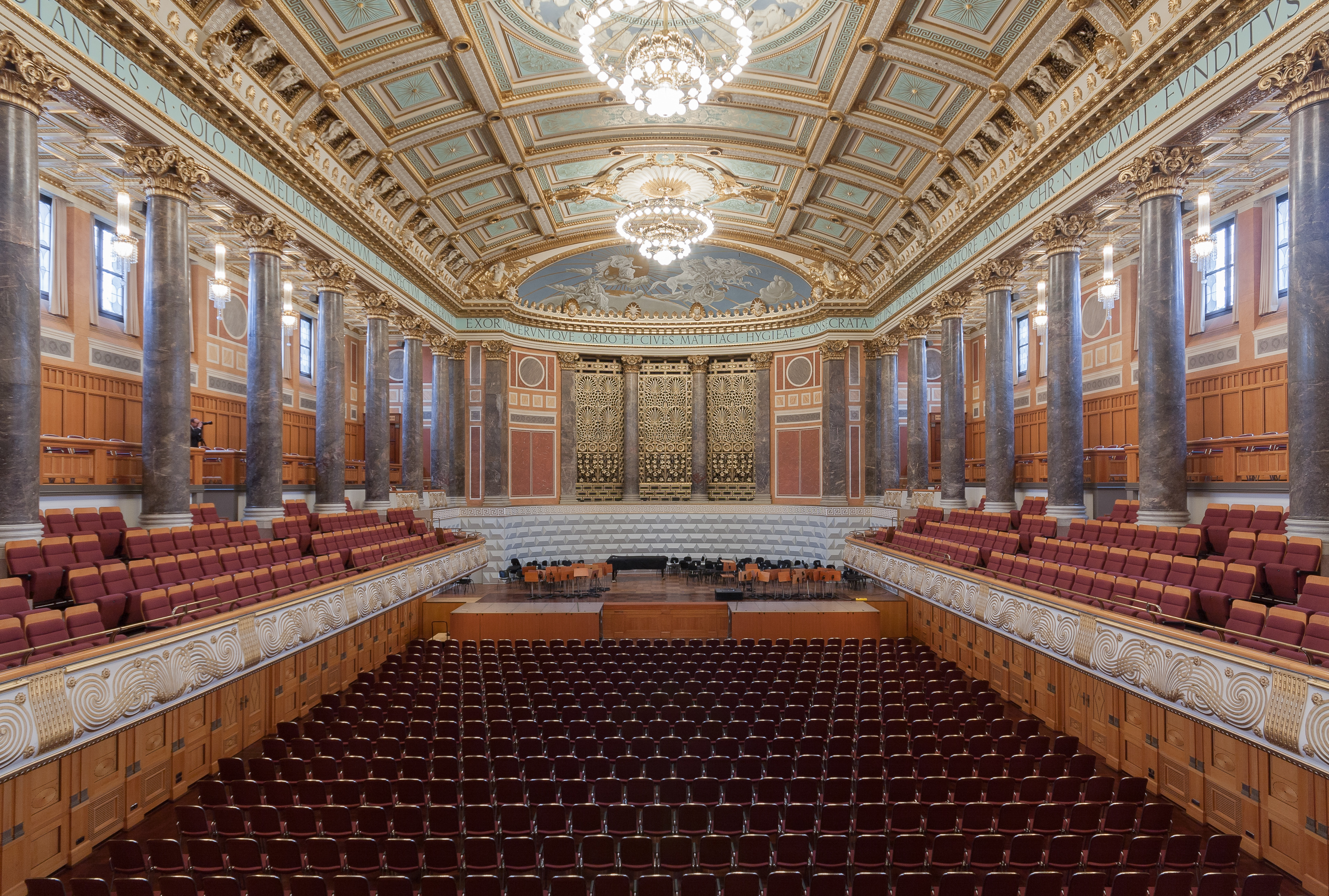 Friedrich-von-Thiersch-Saal, Kurhaus Wiesbaden, Germany